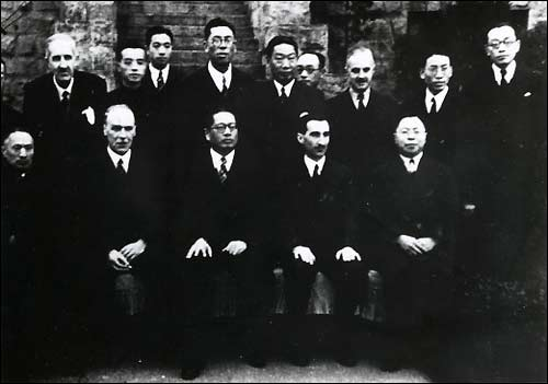 On Jan. 11, 1943, the Sino-British Treaty for the Relinquishment of Extra-Territorial Rights in China is signed. This is the deputies of China and British. Front row from left: Wellington Koo, Horace James Seymour, T. V. Soong, Hugh Edward Richardson, Wu Guozhen.